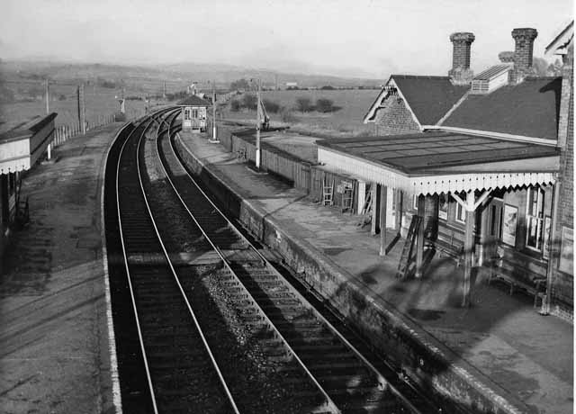 Buxted Station. View northwards, towards Eridge, Oxted and London; ex-London Brighton & South Coast, London - Oxted/Tunbridge Wells West - Eridge - Uckfield - Lewes line, which has been closed south of Uckfield since 24/2/69.